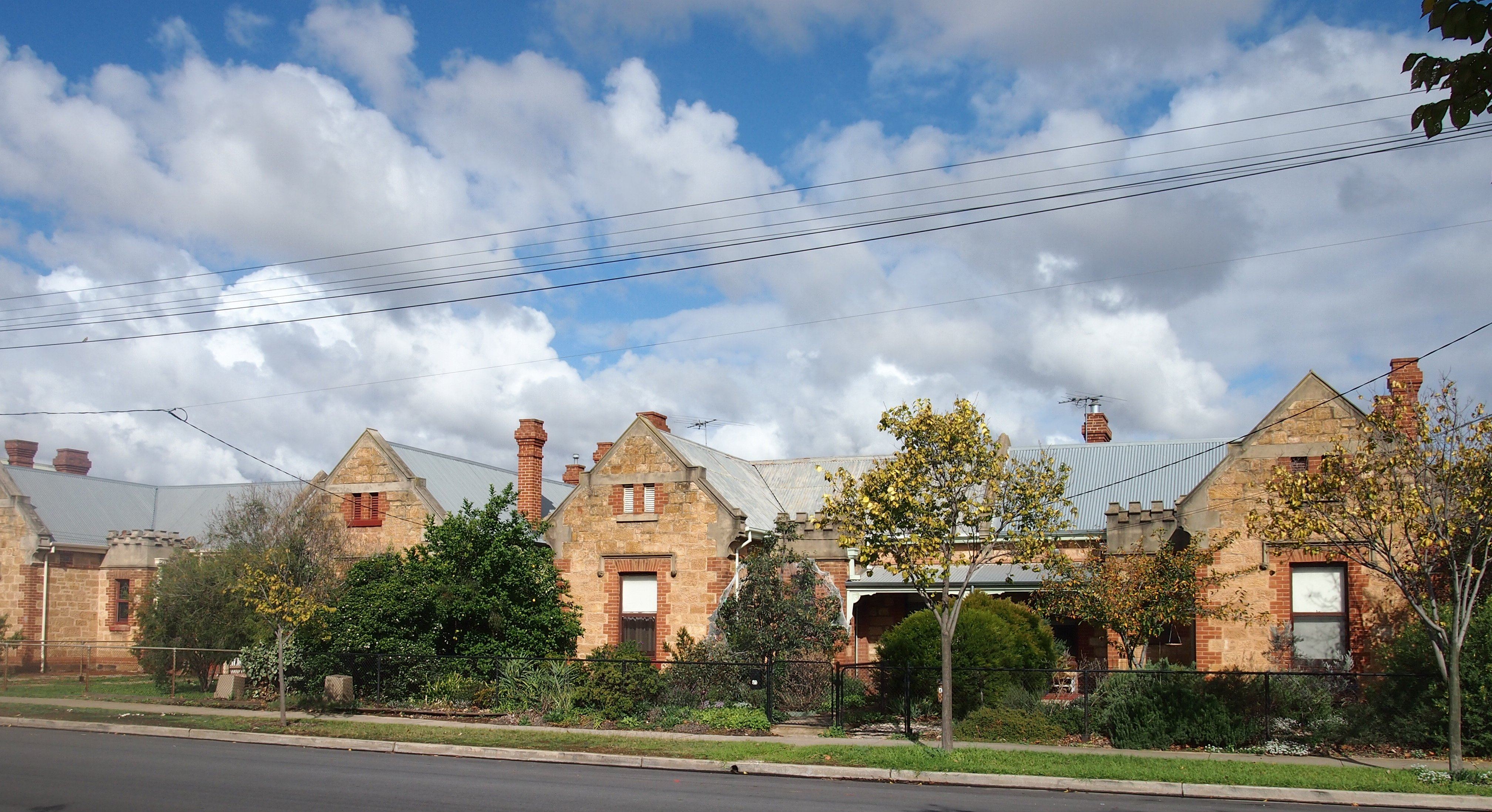 Cottages built by Adelaide Workmen's Homes on the south side of Rose Street, Mile End, South Australia in 1901-2 Original filename = P5102004.JPG